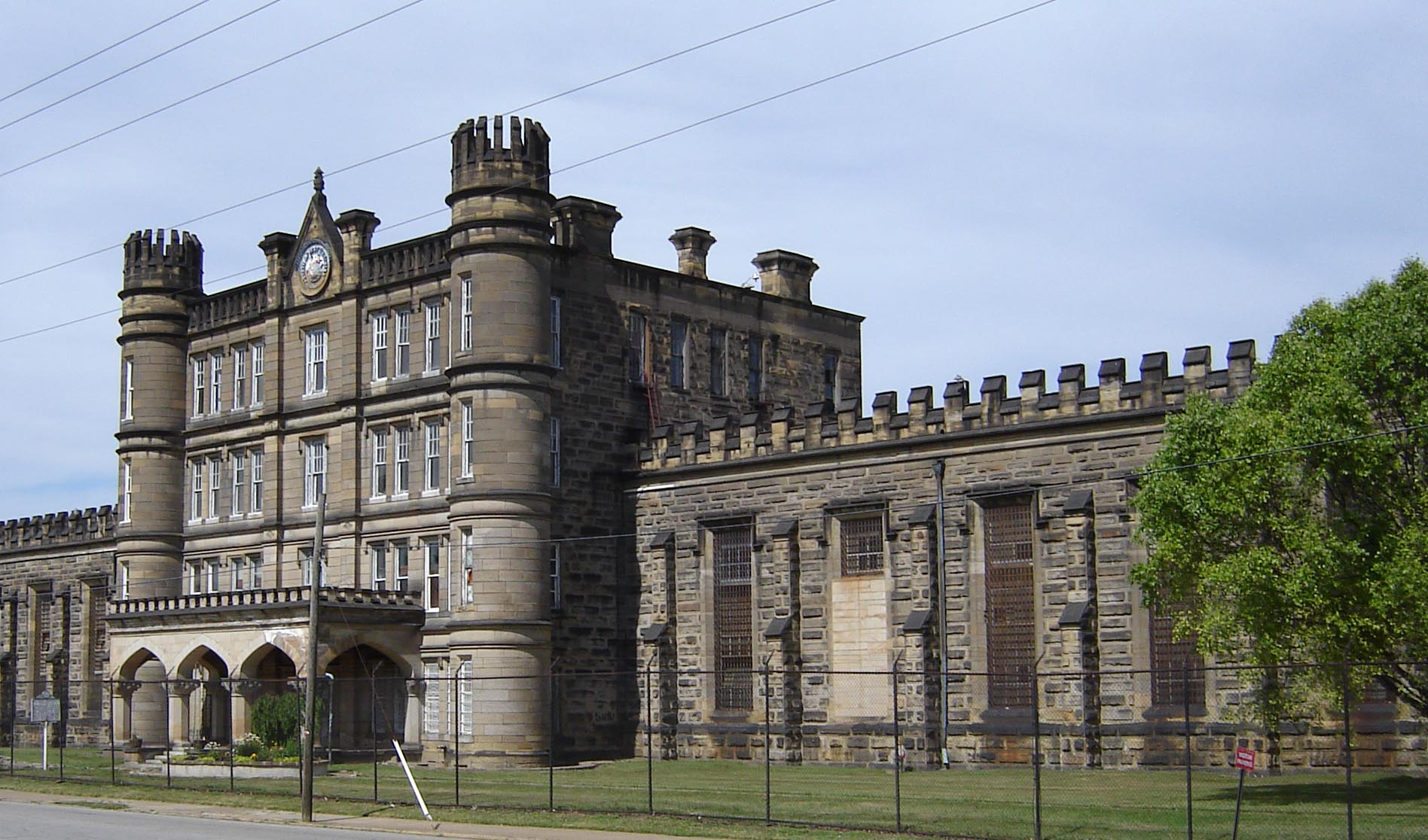 West Virginia - Moundsville State Penitentiary - Established 1866 - Location of electric chair until banned in 1965. By:Mike Sharp 06-23-07.